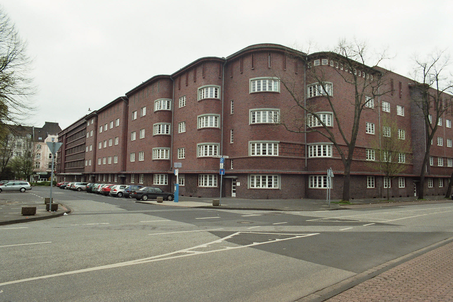 Houses in the center of Wanne-Eickel, Germany.